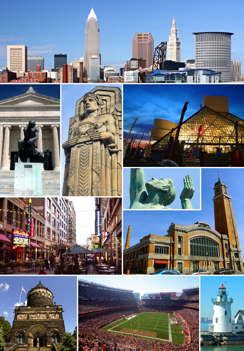 Montage of Cleveland